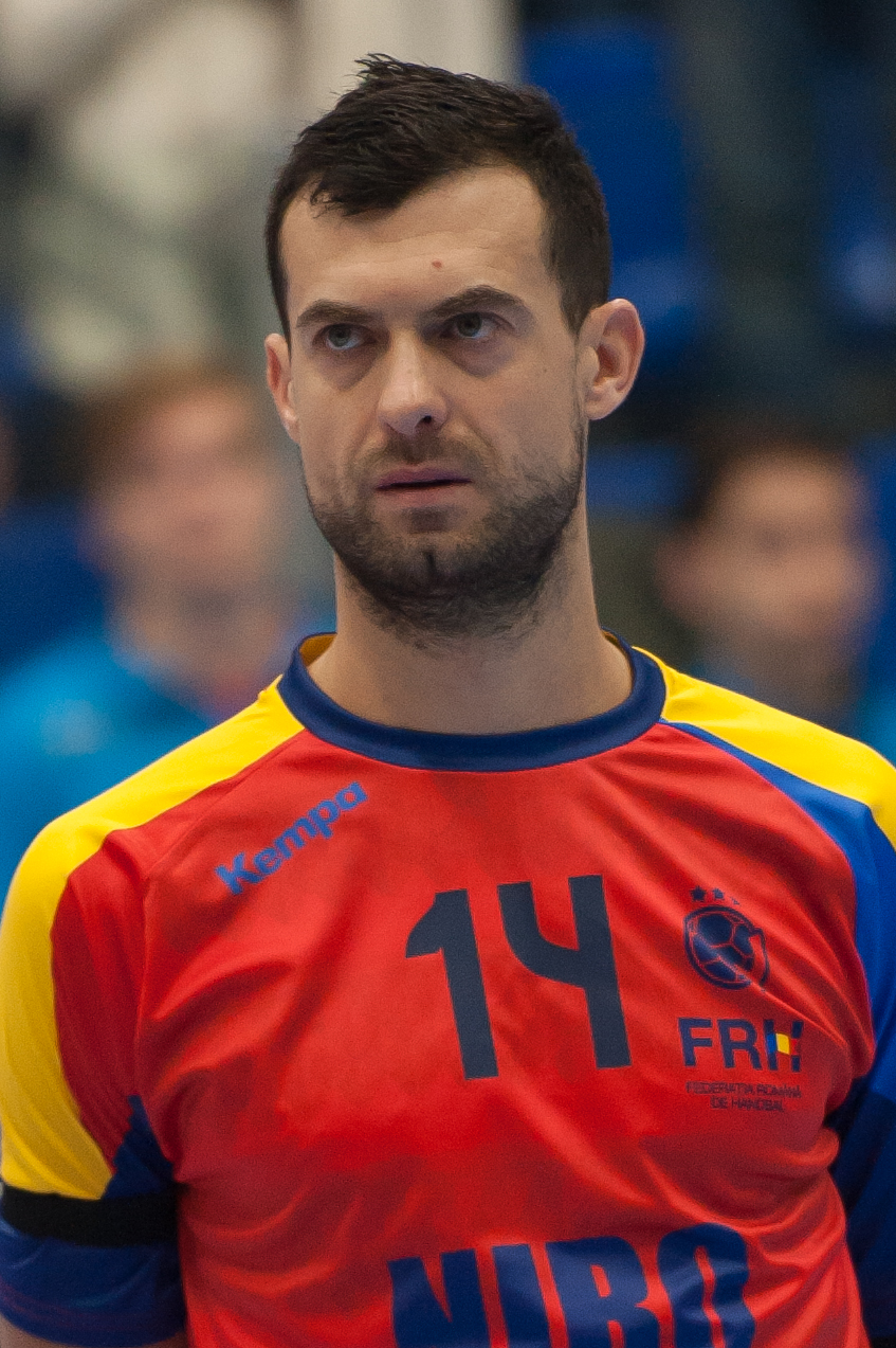 2017 Men's World Championship Qualification Europe Round 1, Austria vg. Romania, Maria Enzersdorf, Lower Austria, 2015-11-04